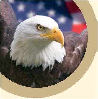 Eagle with flag in background.